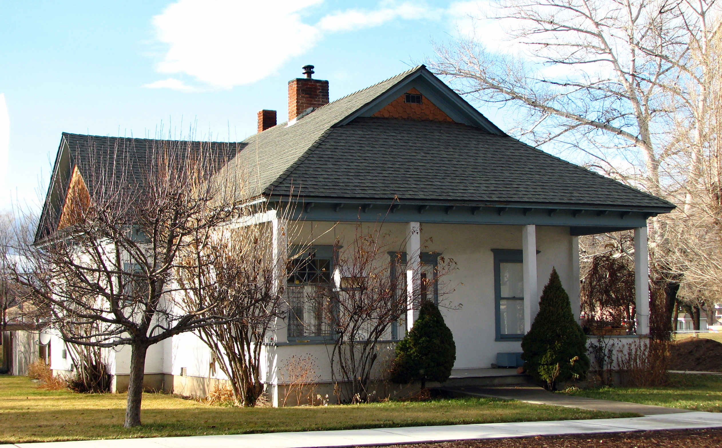 The historic Max and Ollie Lueddemann House (built 1905), located at 96 Southeast 9th Street in Madras, Oregon, United States, is listed on the US National Register of Historic Places.